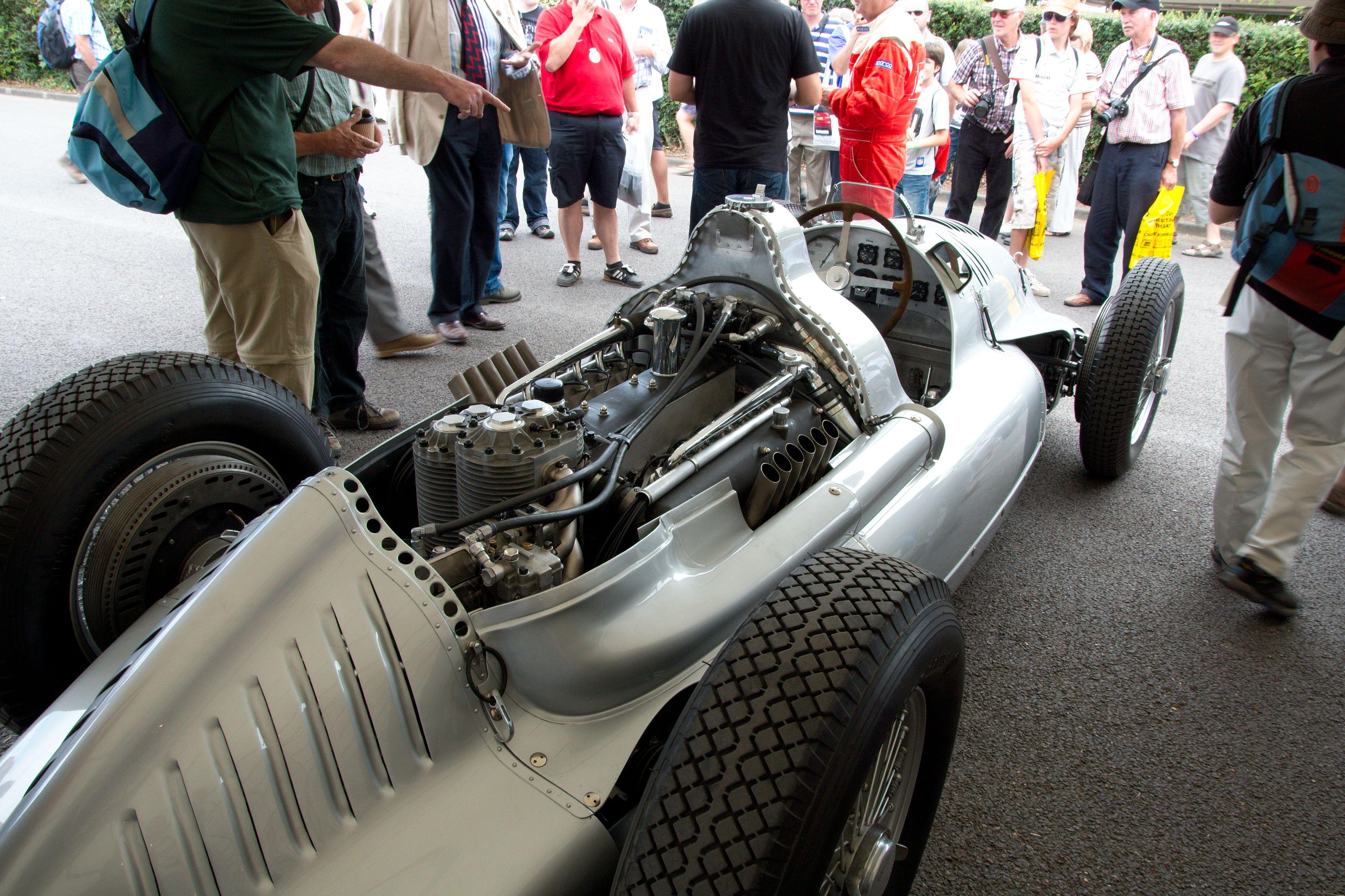 Auto Union Type D